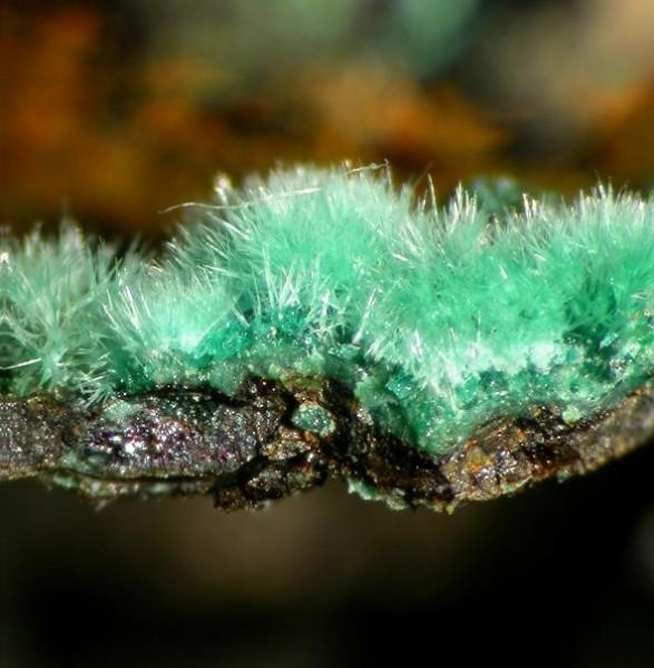 Antlerite (picture width: 3 mm) Locality: Ingadanais Mines, Castelo Branco, Portugal